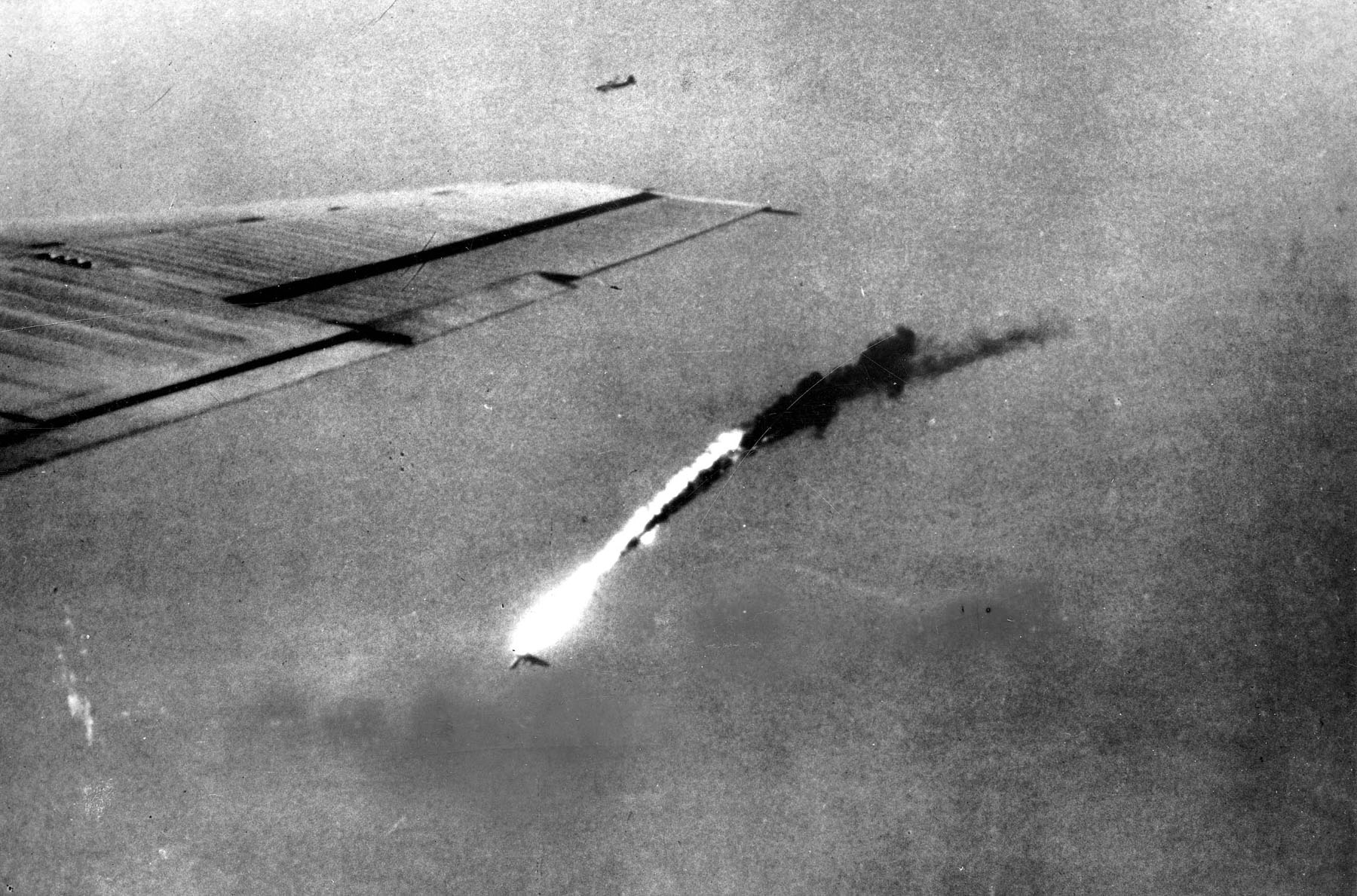 With one wing gone, a B-29 falls in flames after a direct hit by enemy flak over Japan.